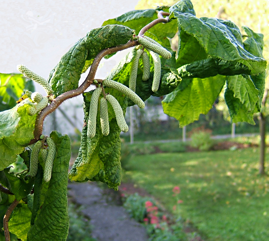 hazel